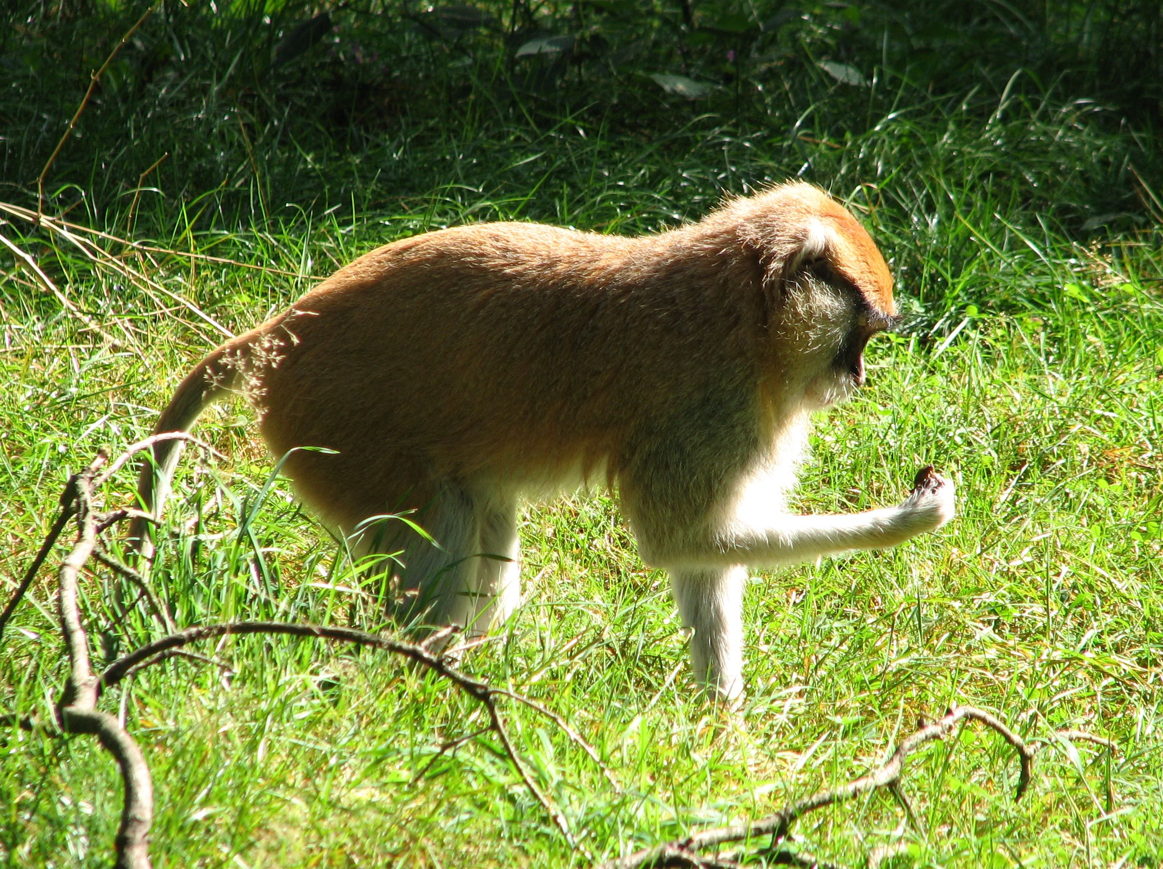 Patas monkey (Erythrocebus patas) in ZOO Olomouc, Czech Republic